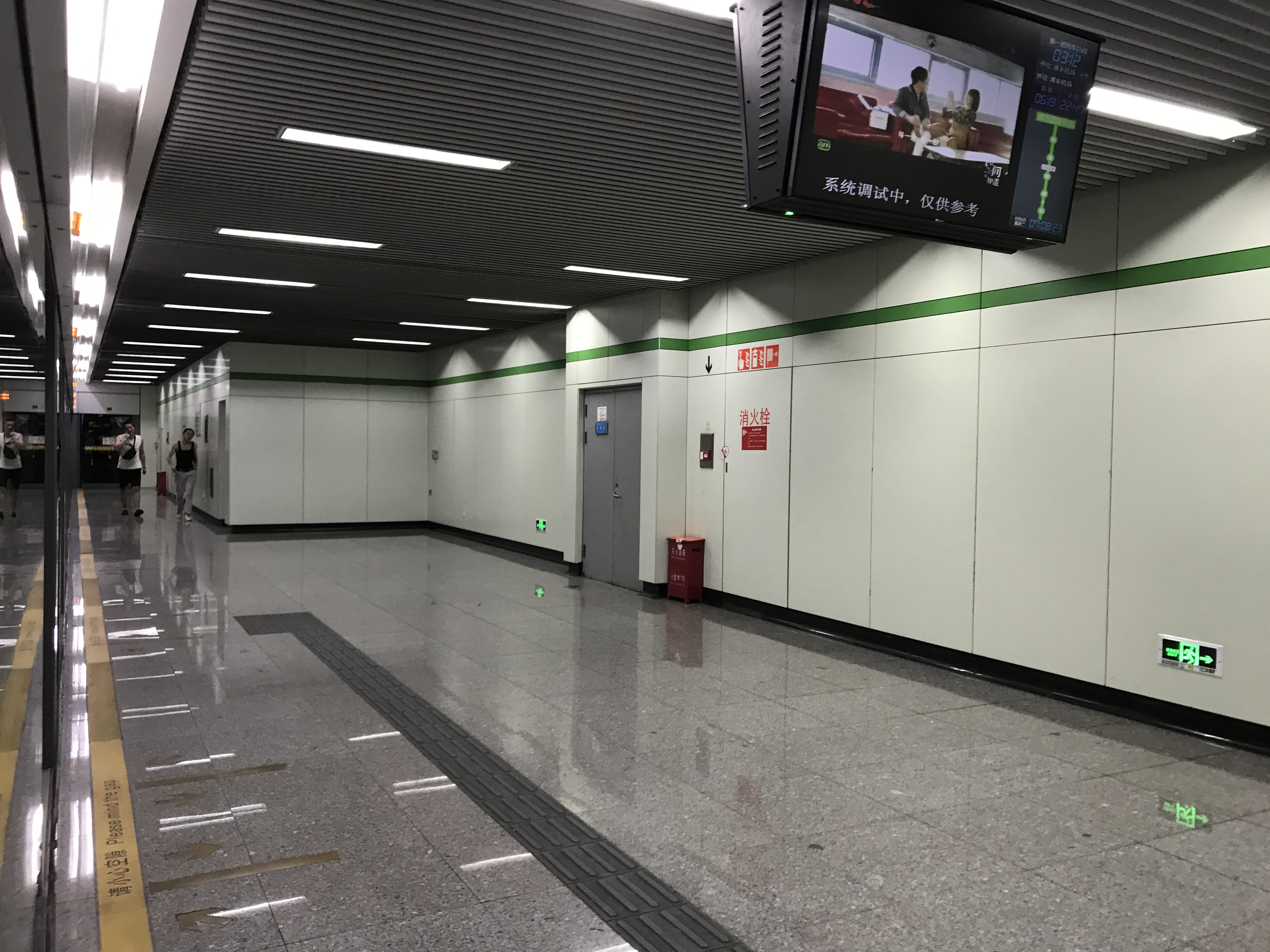 201908 Lingkong Road Station Platform